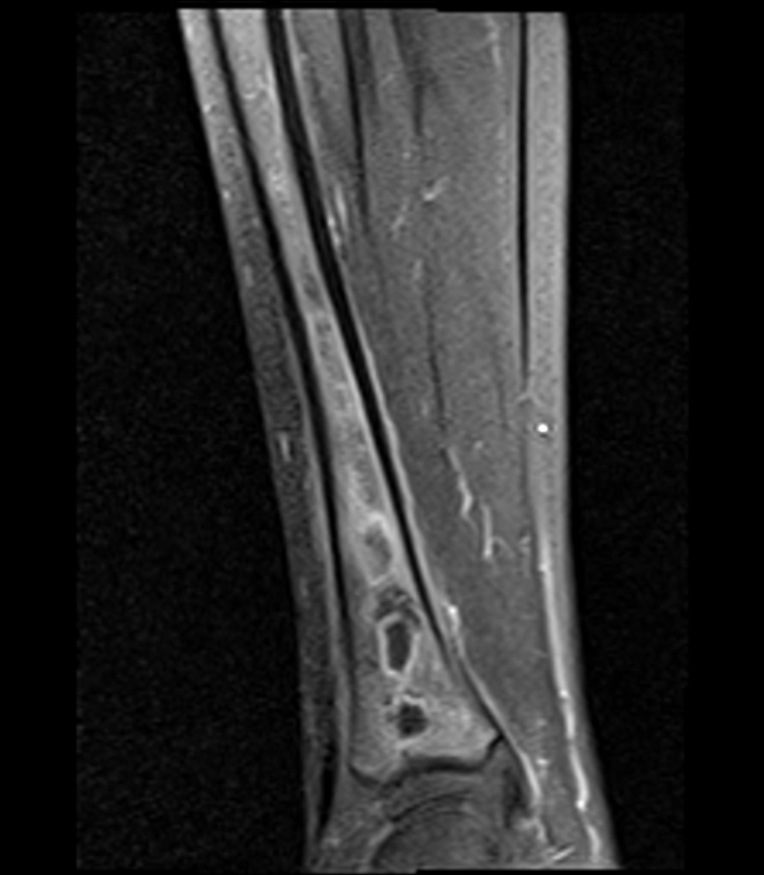 post contrast T1 weighted MRI in the saggital plane showing subacute osteomyelitis in the tibia